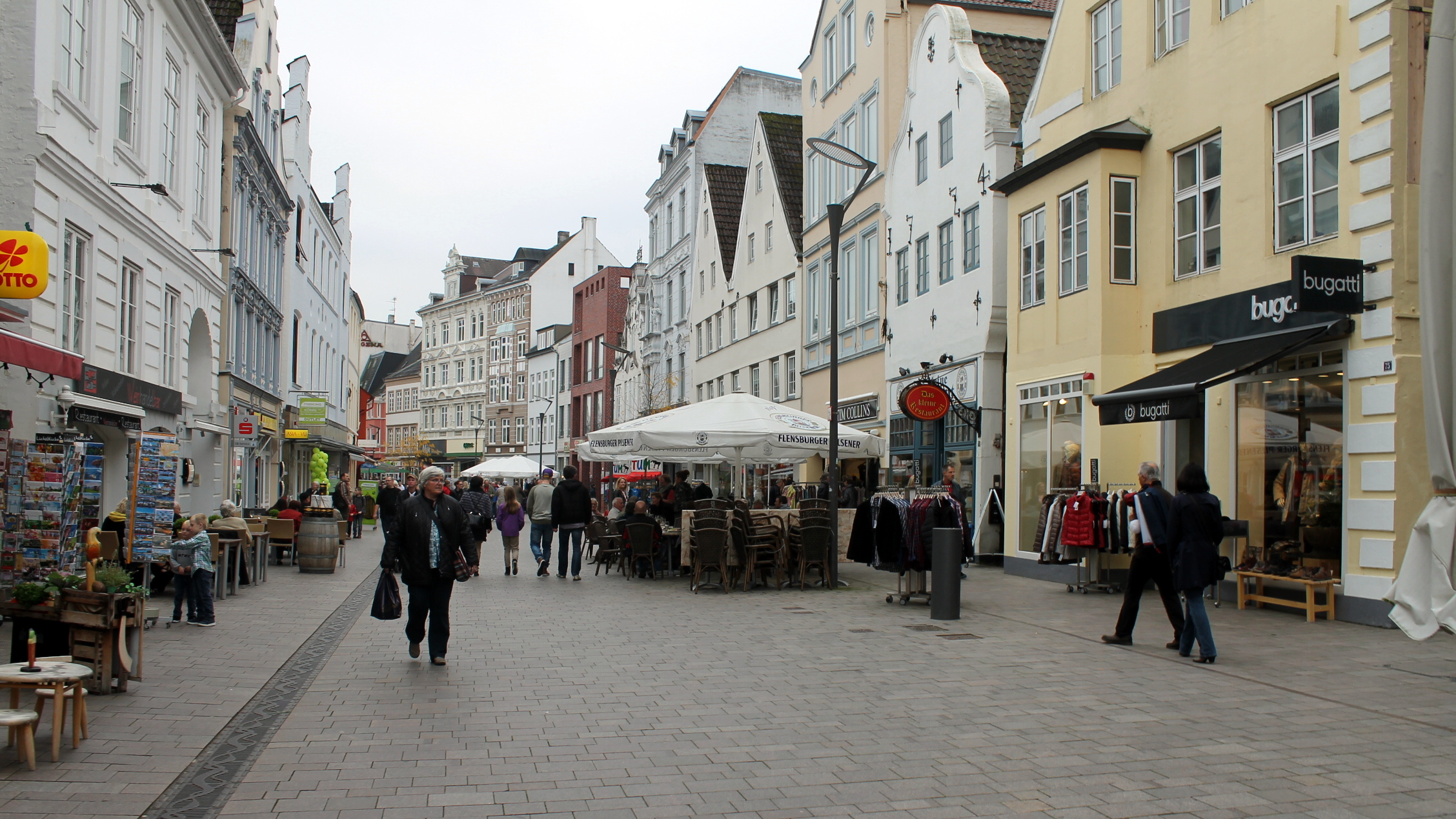 Walking street in Flensburg, Germany